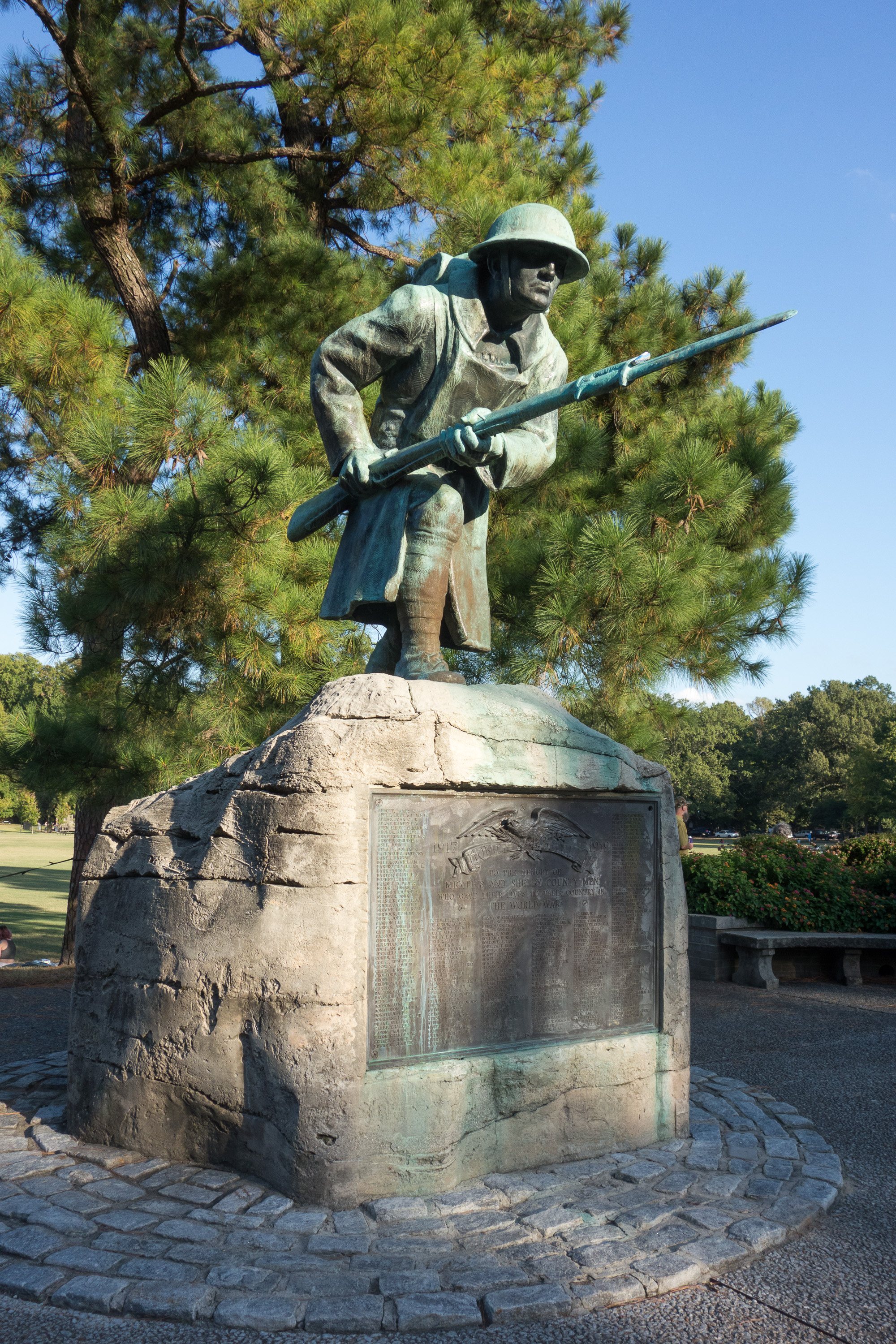 WWI memorial statue in Overton Park, Memphis, Tennessee.